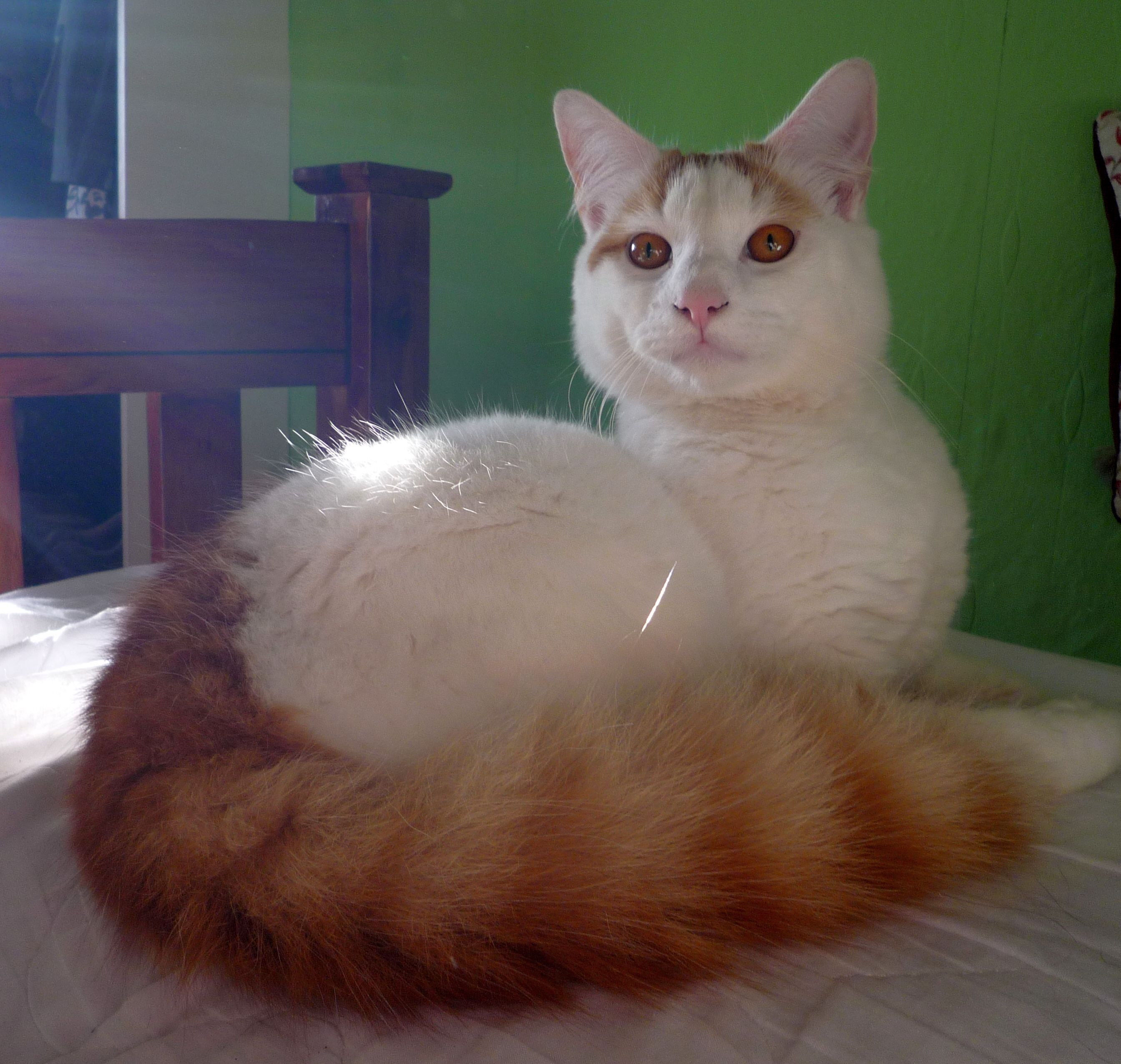 A Turkish Van cat, named Morris, with a "van patterned" coat.